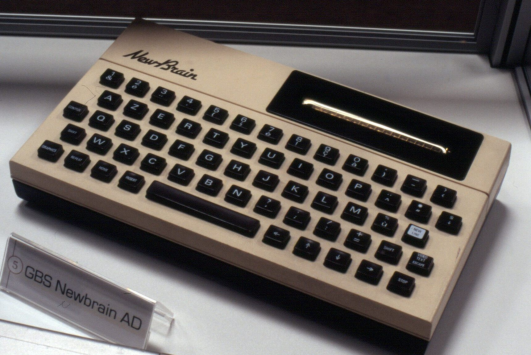 Grundy NewBrain computer.